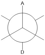 Newman projection showing A and D anti-periplanar